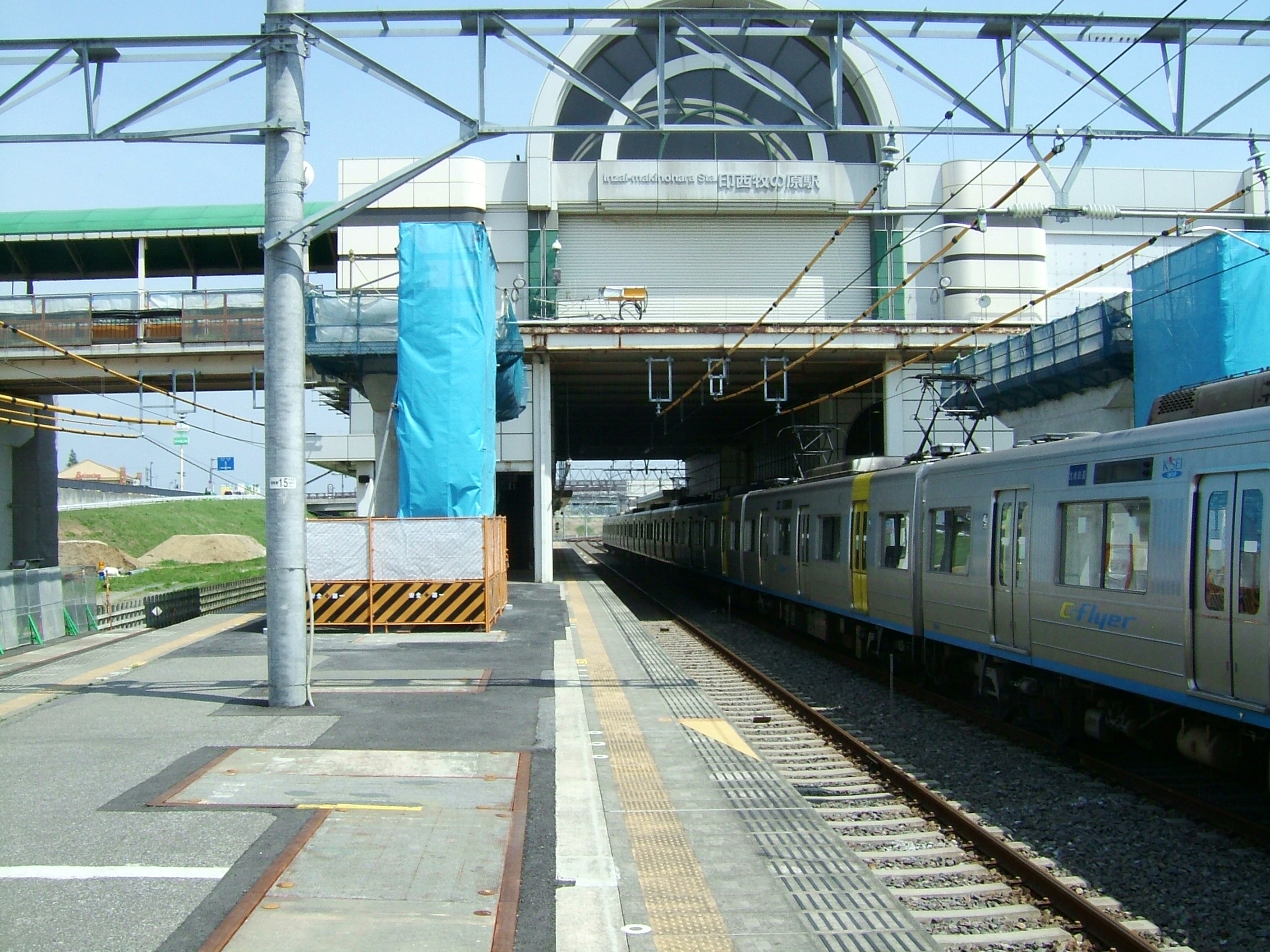 The platforms at Inzai-Makinohara Station on the Hokusō Railway in Inzai city, Chiba prefecture, Japan